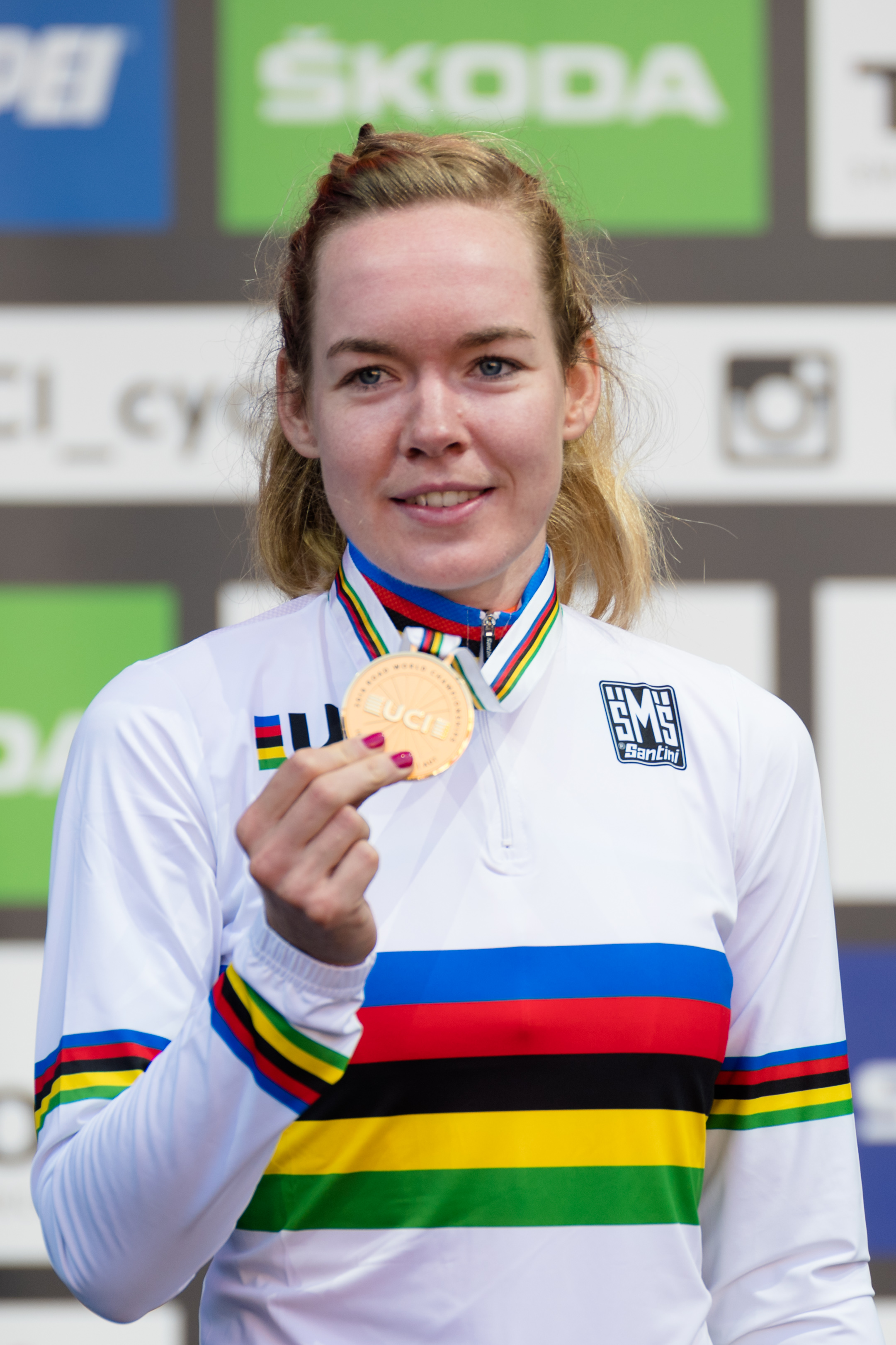 2018 UCI Road World Championships Innsbruck/Tirol Women Elite Road Race. Picture shows: Award Ceremony, Anna van der Breggen of the Netherlands